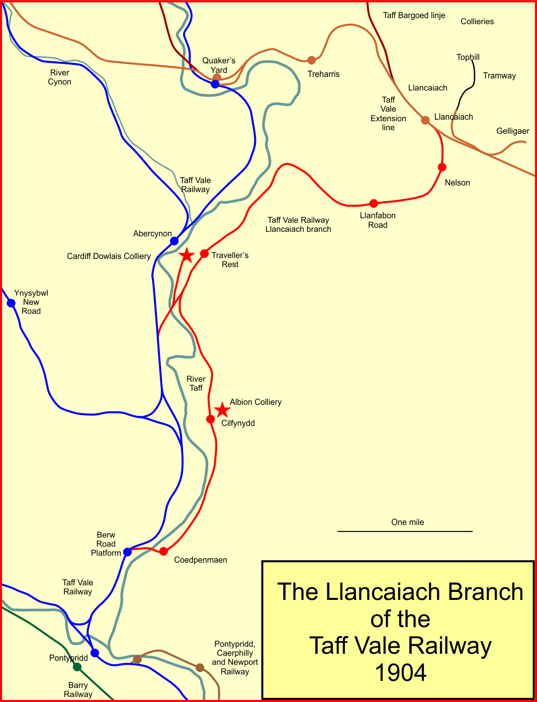 System map of the Llancaiach line of the Taff Vale Railway, Wales, in 1900